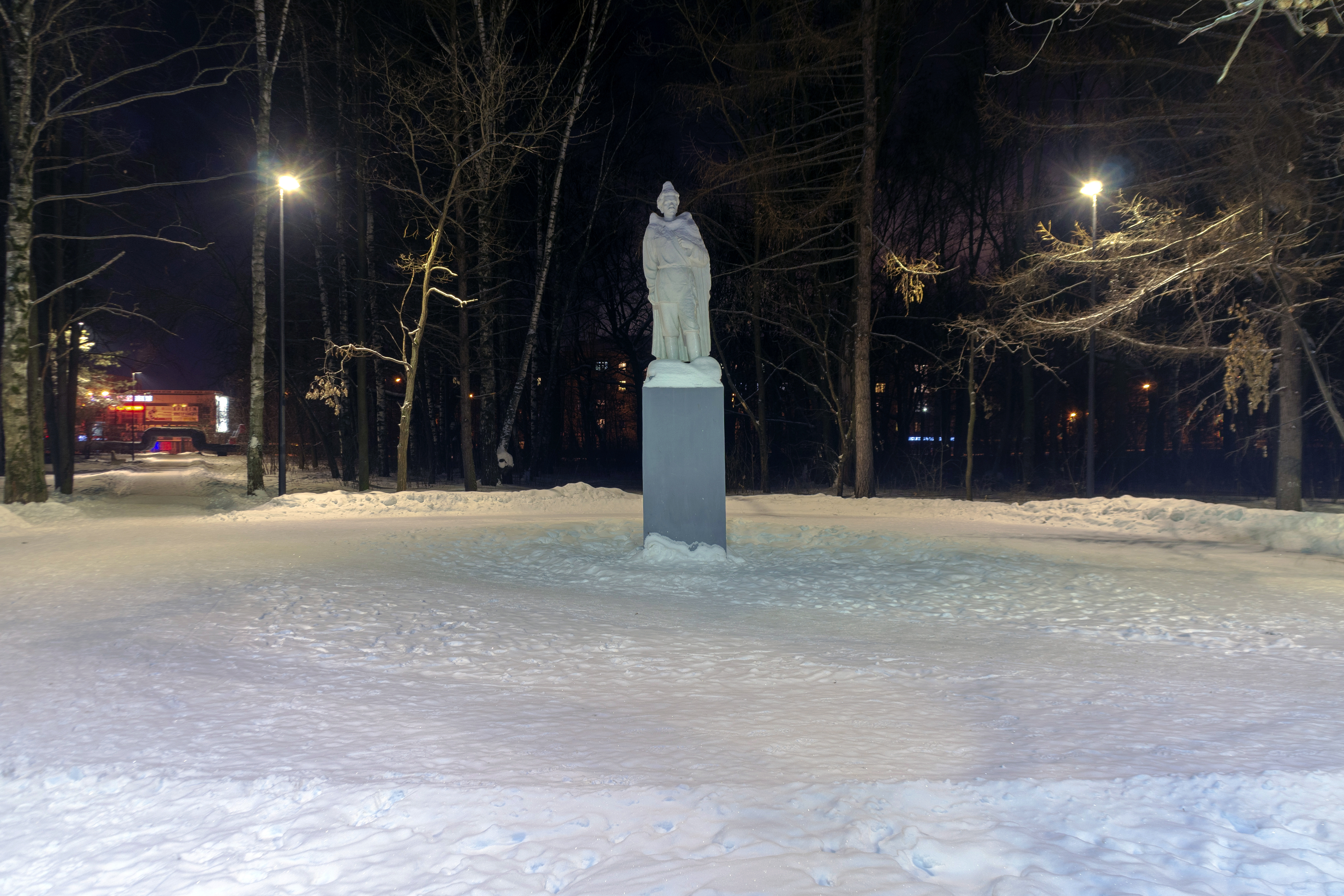 Dubki park in Nizhny Novgorod